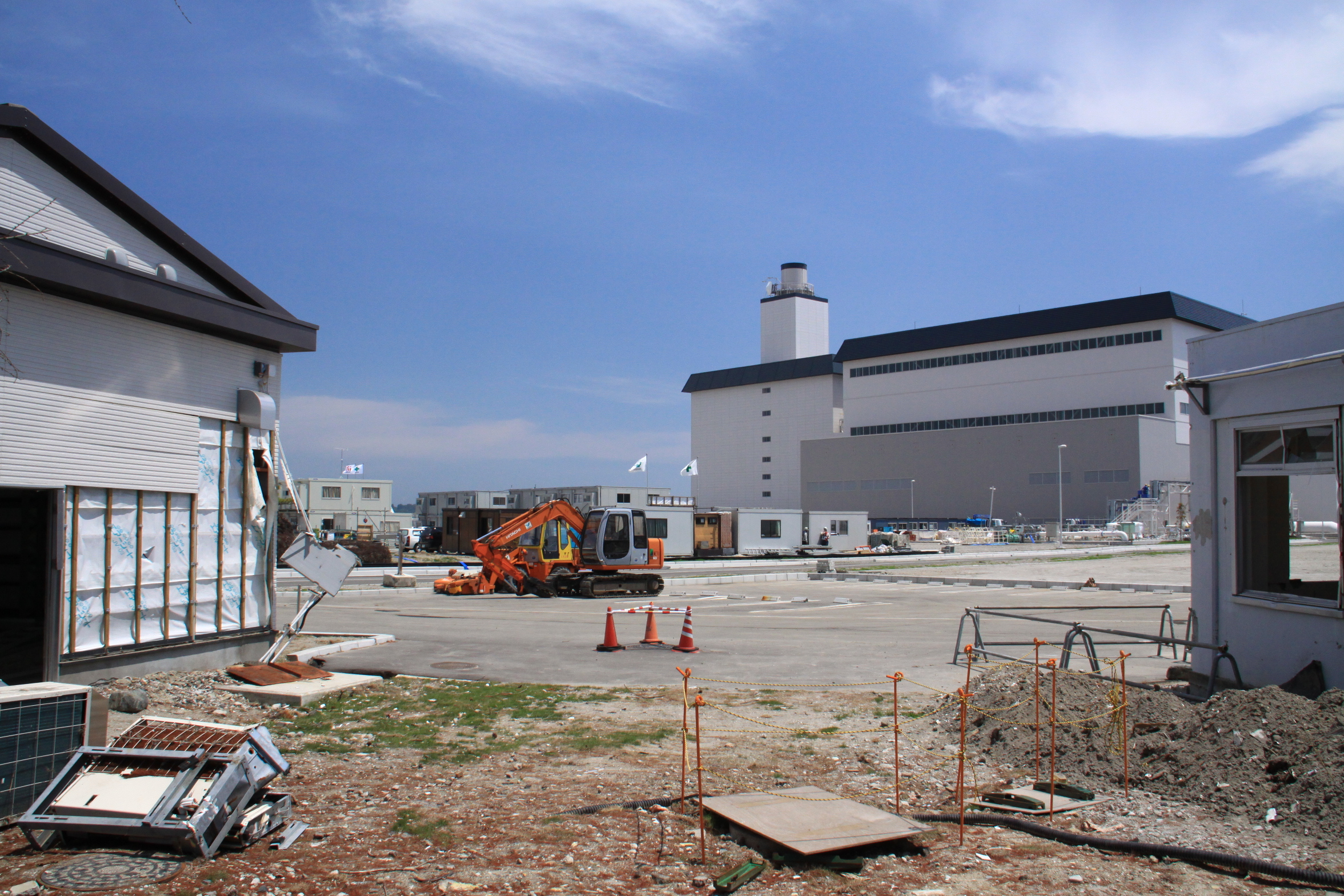 Sendai Thermal Power Station receiving great deal of harm by Tsunami and stopping. All-out recovery efforts are done in Shichigahama, Miyagi. “Date and time of data generation” of Metadata is wrong. Correctness is 8 June 2011.